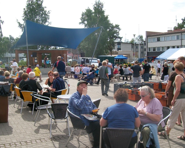 Kiuruvesi market place song music festivals